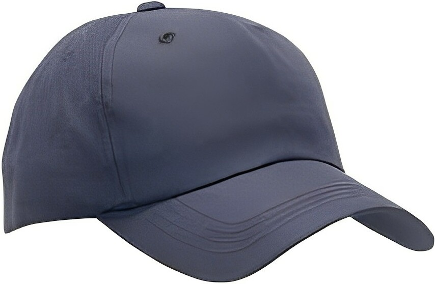 Blue Baseball Cap